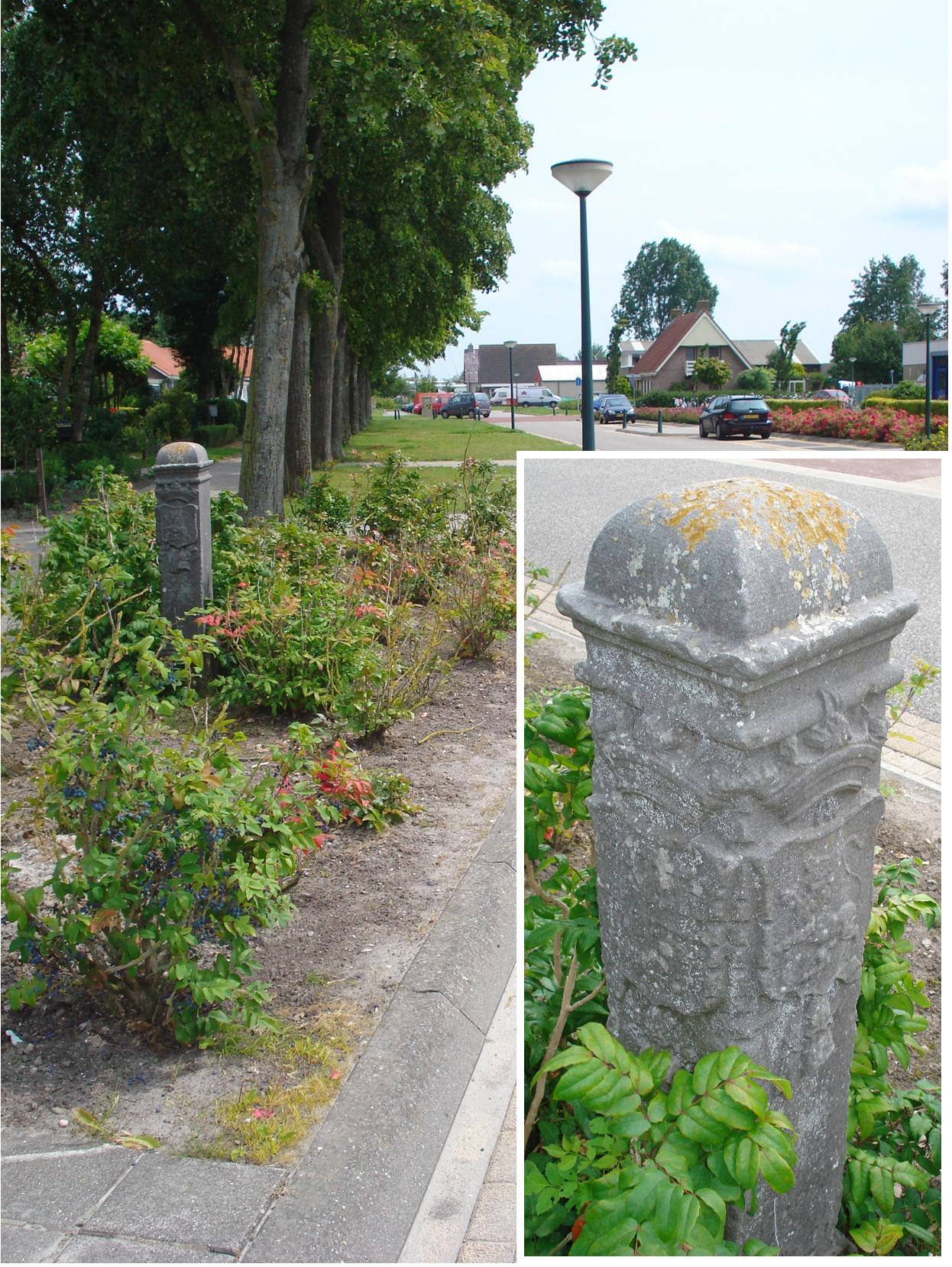 In 1930 moved landmark, Ljouwertertrekwei, Dronryp